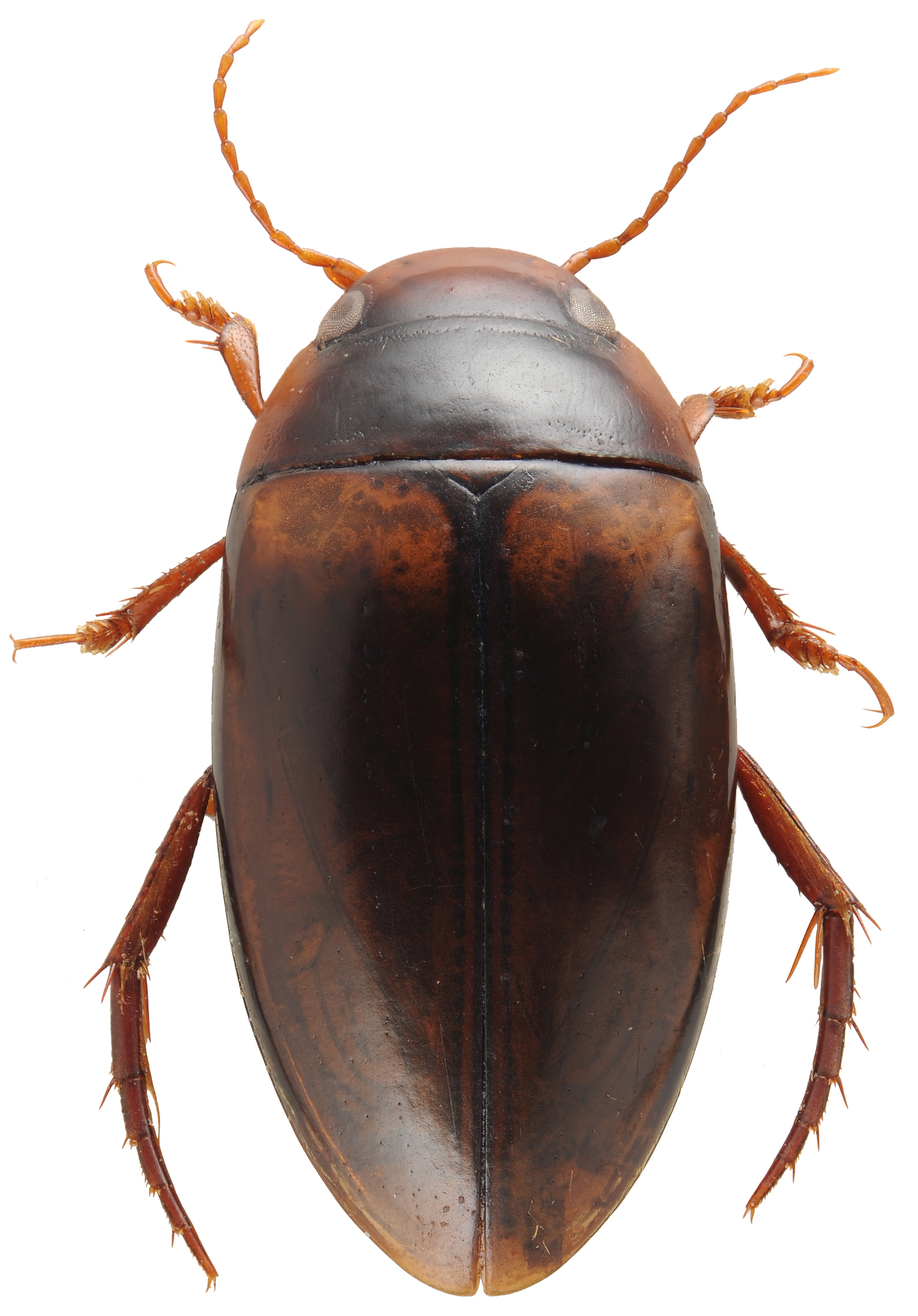 Dorsal habitus of Copelatus sibelaemontis HÁJEK, HENDRICH, HAWLITSCHEK & BALKE